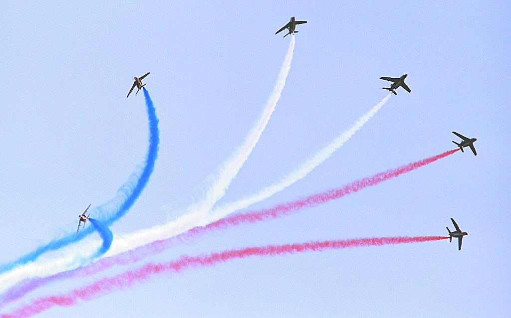 The Patrouille de France in Cannes (Alpes-Maritimes, France).